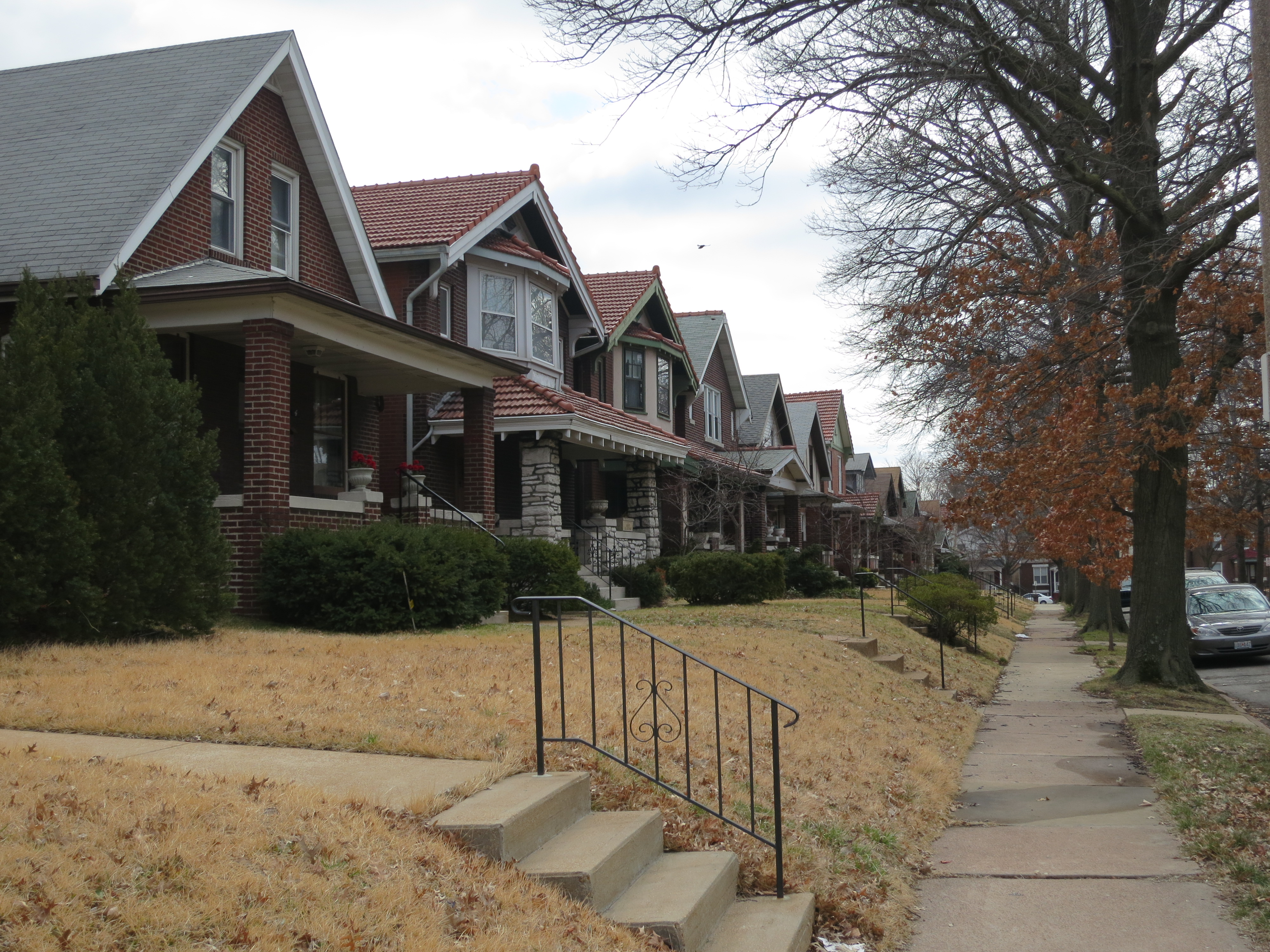 King's Oak Homes - Lawn Place